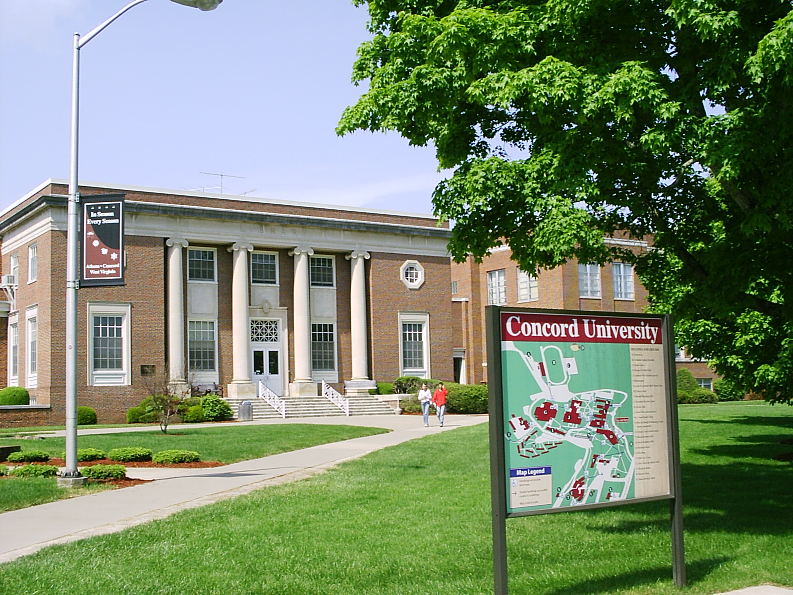 Concord University library building - also showing the campus map sign